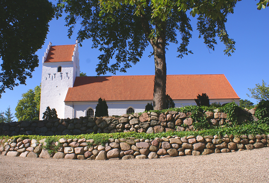 Åsum Church, Odense Kommune, Denmark